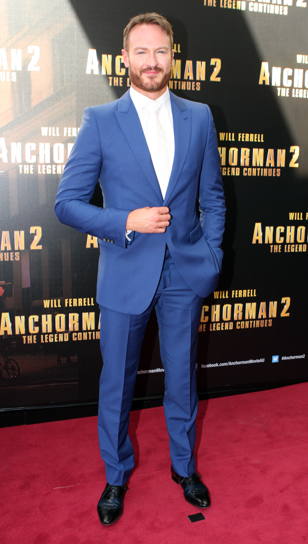 Anchorman 2 The Australian Premiere The Legend Continues